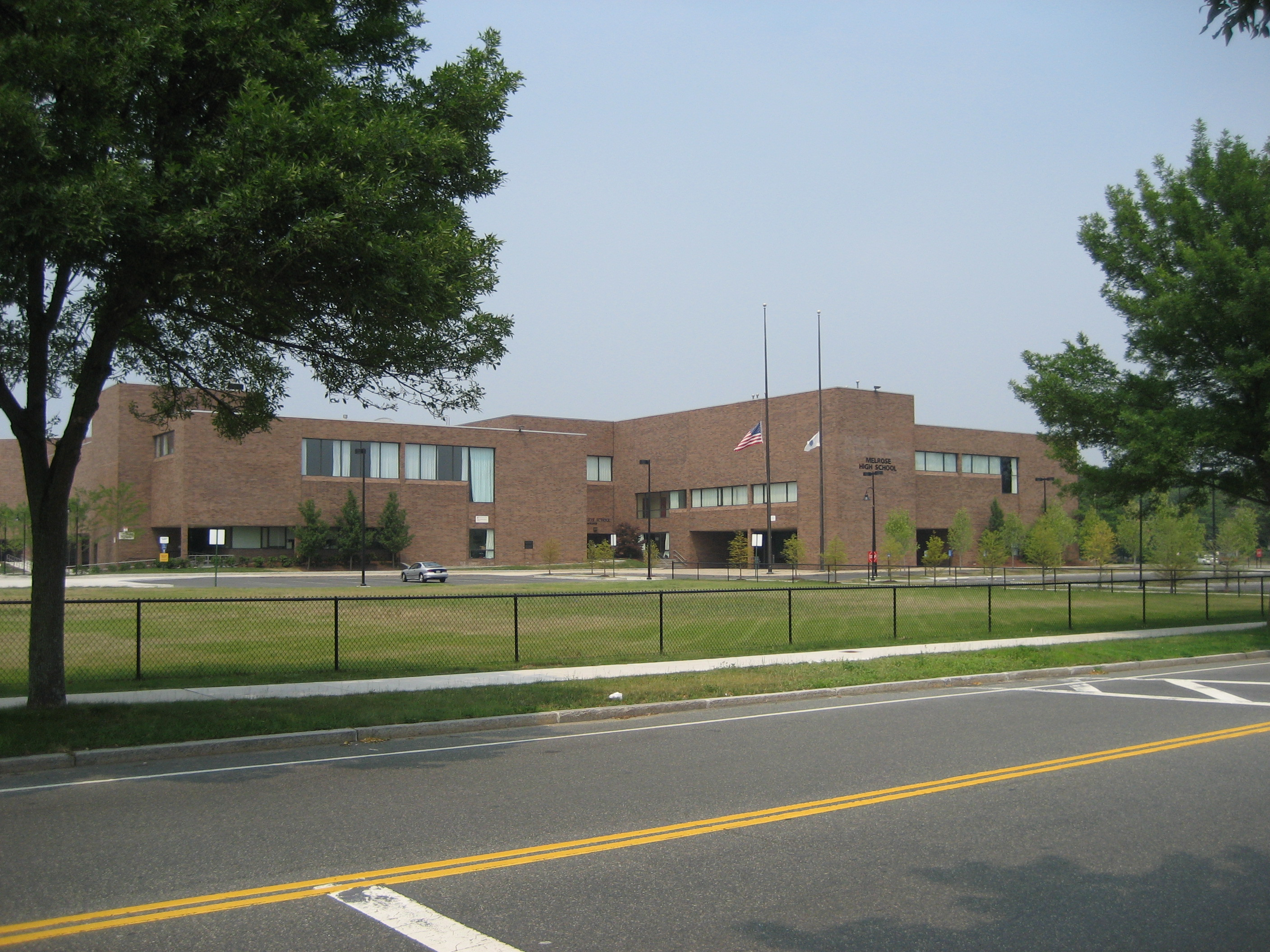 This is a picture of the front of Melrose High School (Massachusetts)